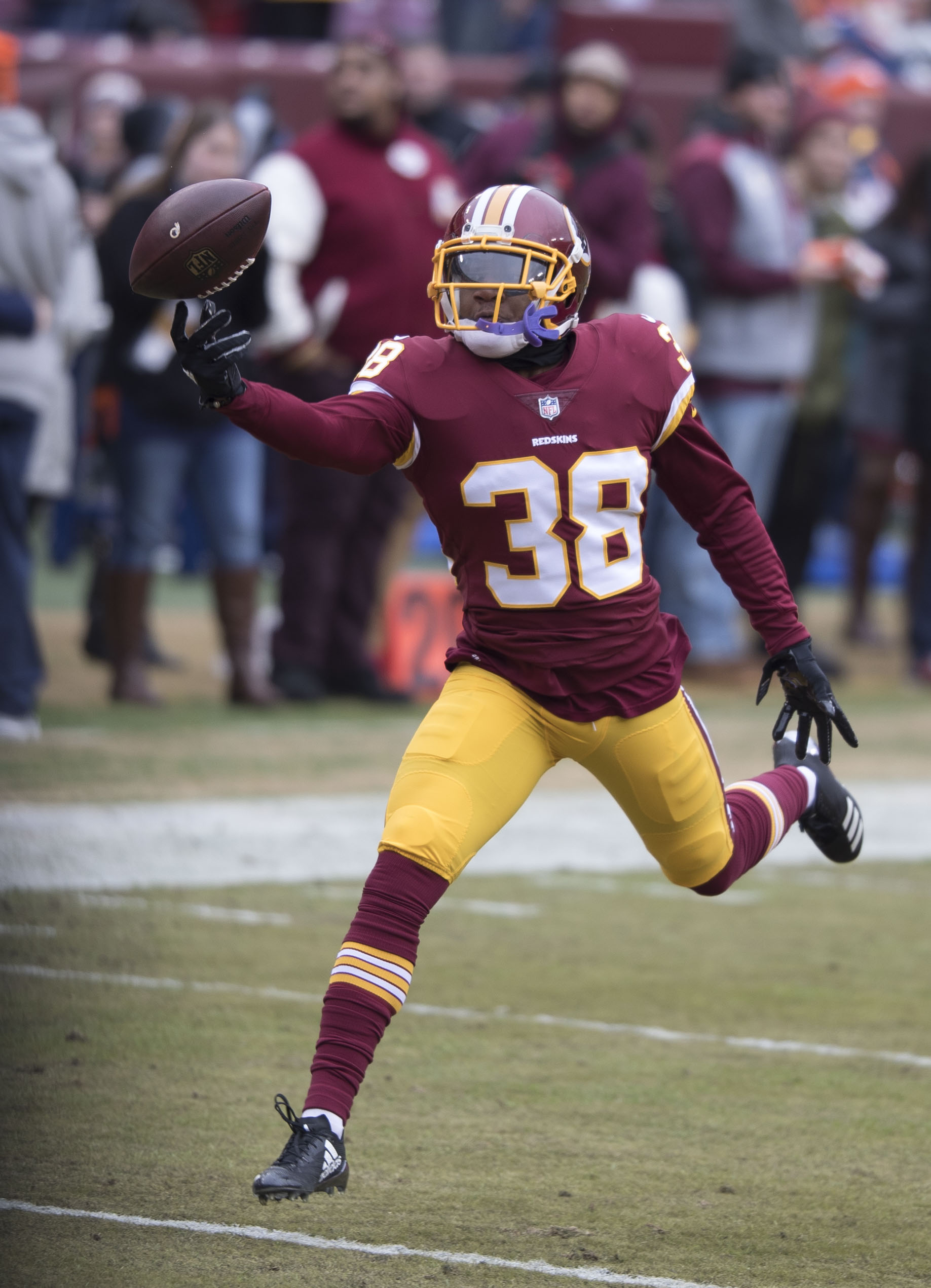 Washington Redskins cornerback, Joshua Holsey, doing warm-ups before a game against the Denver Broncos on December 24, 2017.